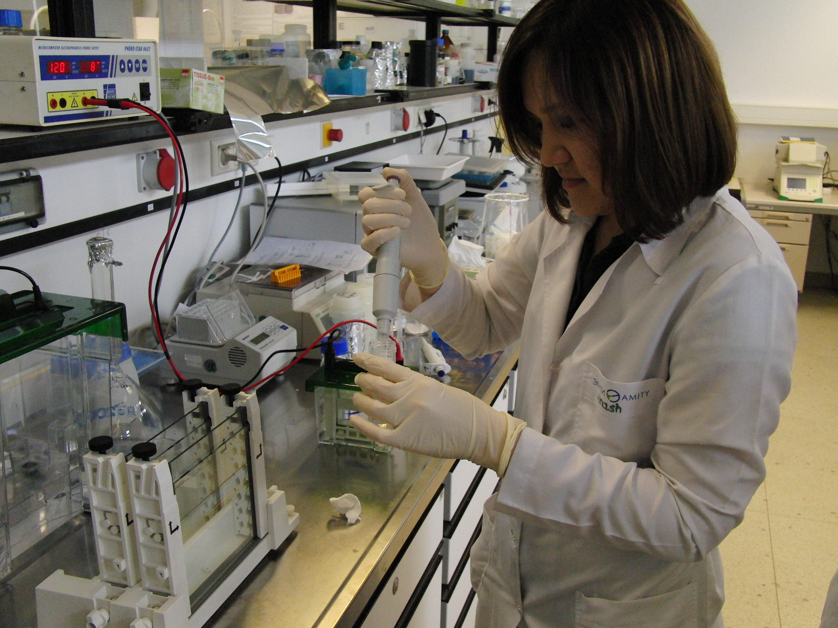 detection of bacterial lipopolysaccharides by electrophoresis